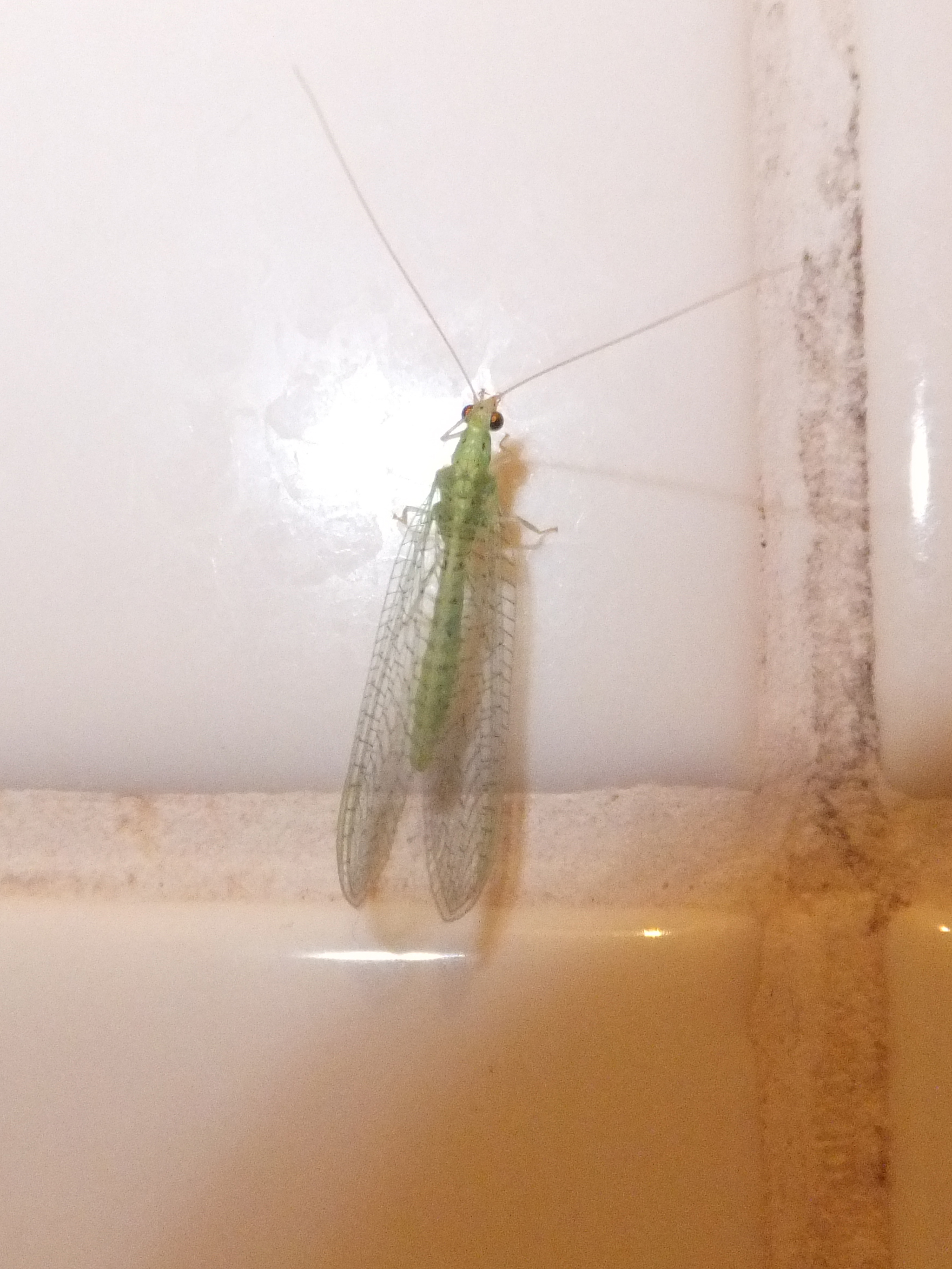 Dichochrysa prasina (aka Pseudomallada prasinus)